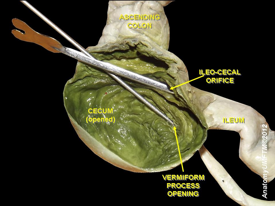 Dissection